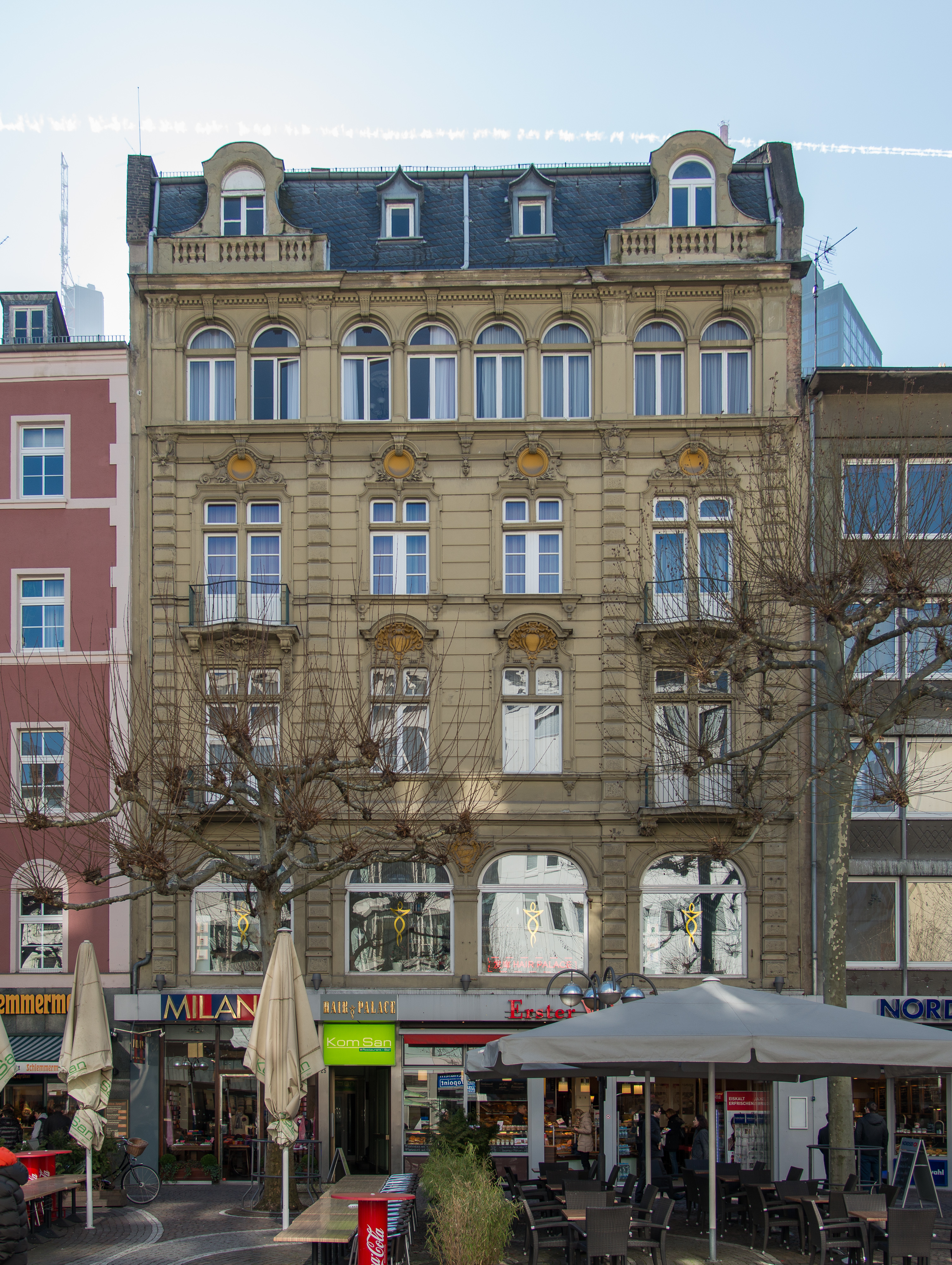 Frankfurt am Main, Große Bockenheimer Straße (Freßgass) 25. Cultural monument of the city.